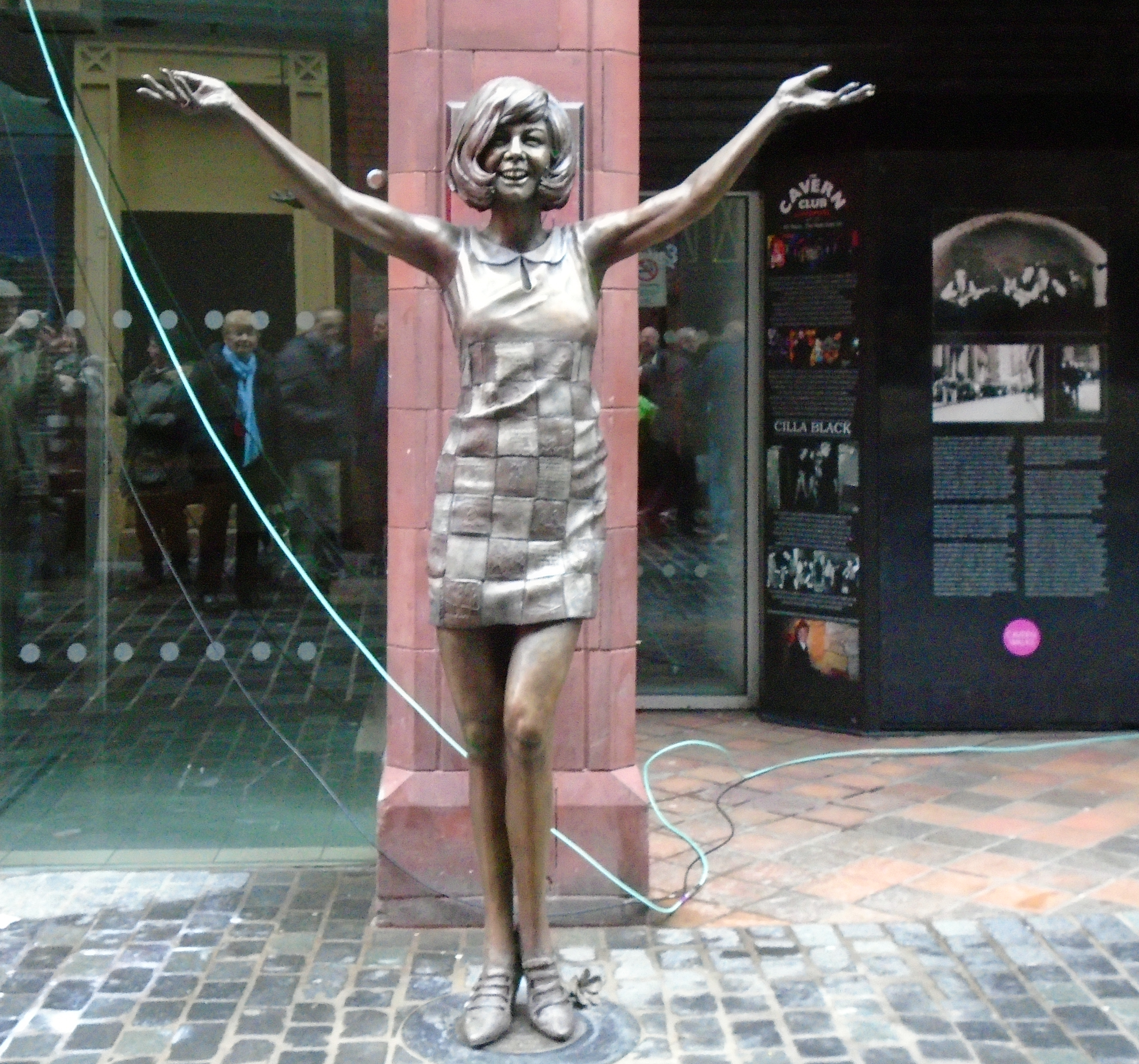 Closer view